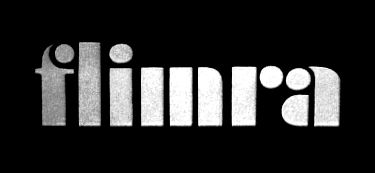 FLIMRA - a TV serie for youth made and aired by NRK tv (Norsk RiksKringkasting) from 1970 to 1984